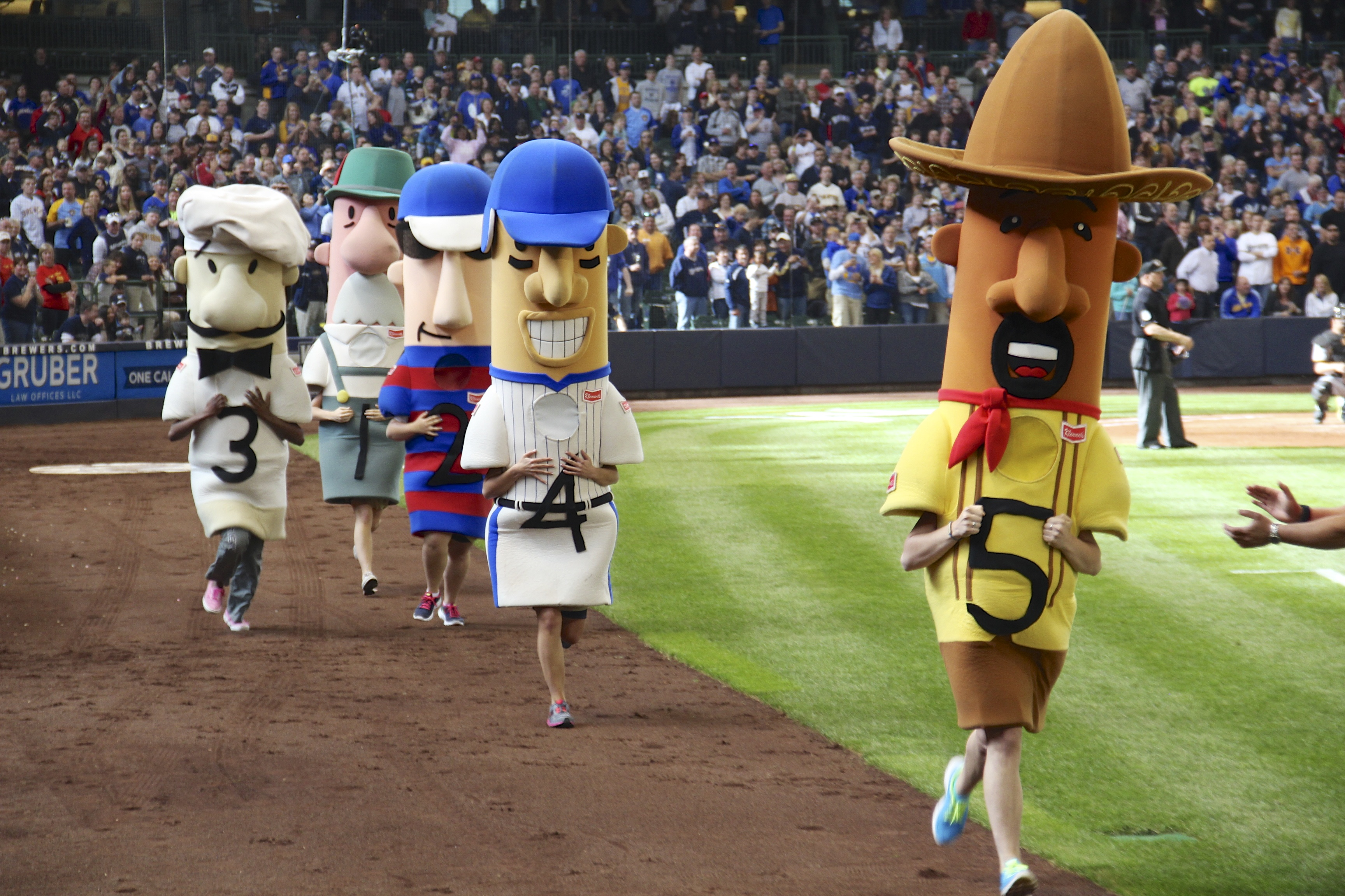 Traditional race of Brewers.